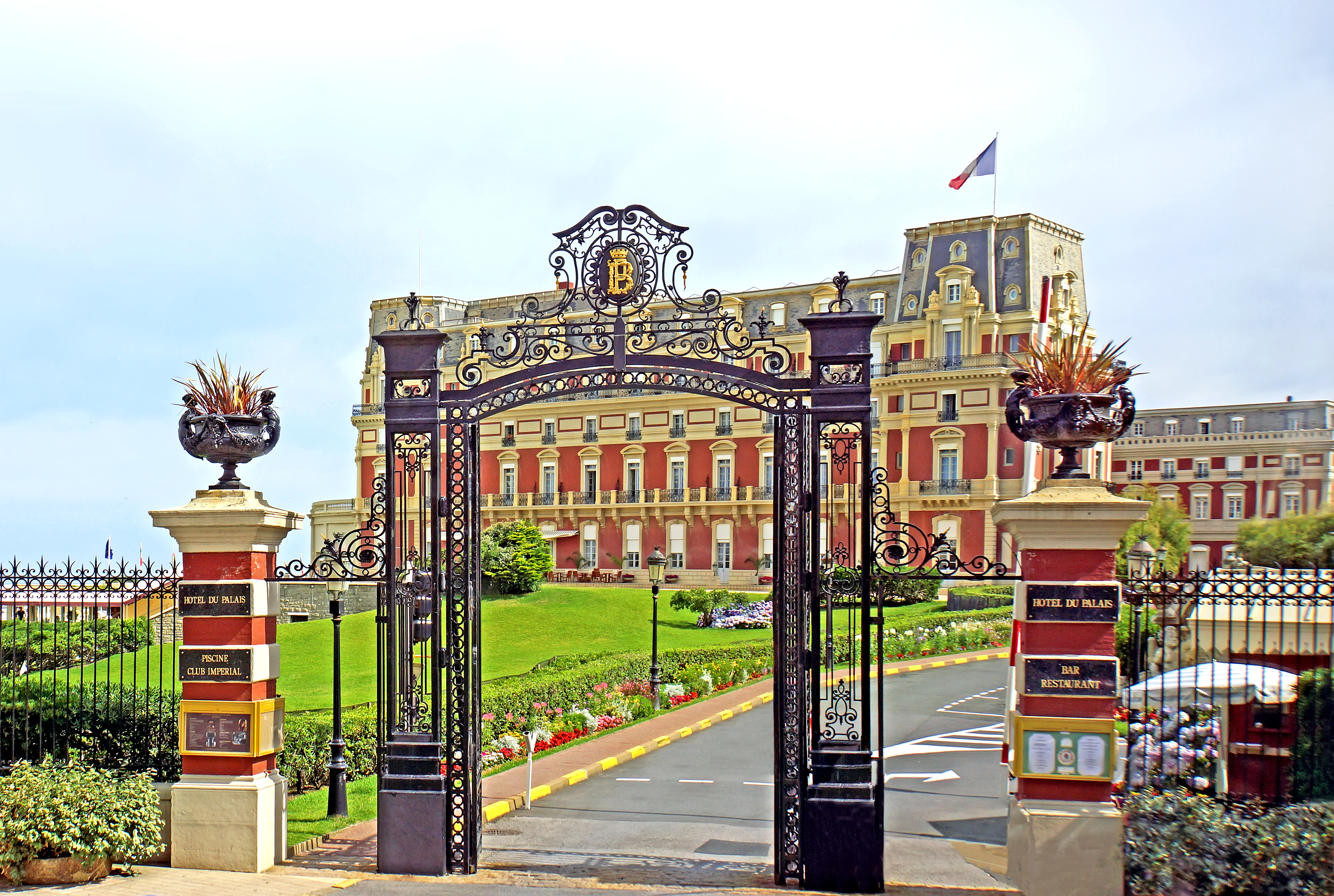 PLEASE, NO invitations or self promotions, THEY WILL BE DELETED. My photos are FREE to use, just give me credit and it would be nice if you let me know, thanks. Bus Shot......... In the middle of the 19th century, when the wife of Napoleon III, Empress Eugenia de Montijo discovered Biarritz, she fell in love with it and its 6 kilometers of sandy beaches. She decided it would be the perfect place to build a sea-side palace to be used as a summer residence. The palace that she built is today known as the Hôtel du Palais. The construction of this immense palace started in 1855, however, when the dynasty fell apart in 1870, the future of the Hôtel du Palais became uncertain. The government seized most of the valuables and finally in 1880, the Empress left Biarritz and the palace was sold. Shortly afterwards, it was transformed into a luxurious hotel-casino. Unfortunately, after World War II, the hotel had to close down for some time and it was only with the help of the mayor, who organized a campaign to raise money for the rehabilitation of the building, that it could be reopened.